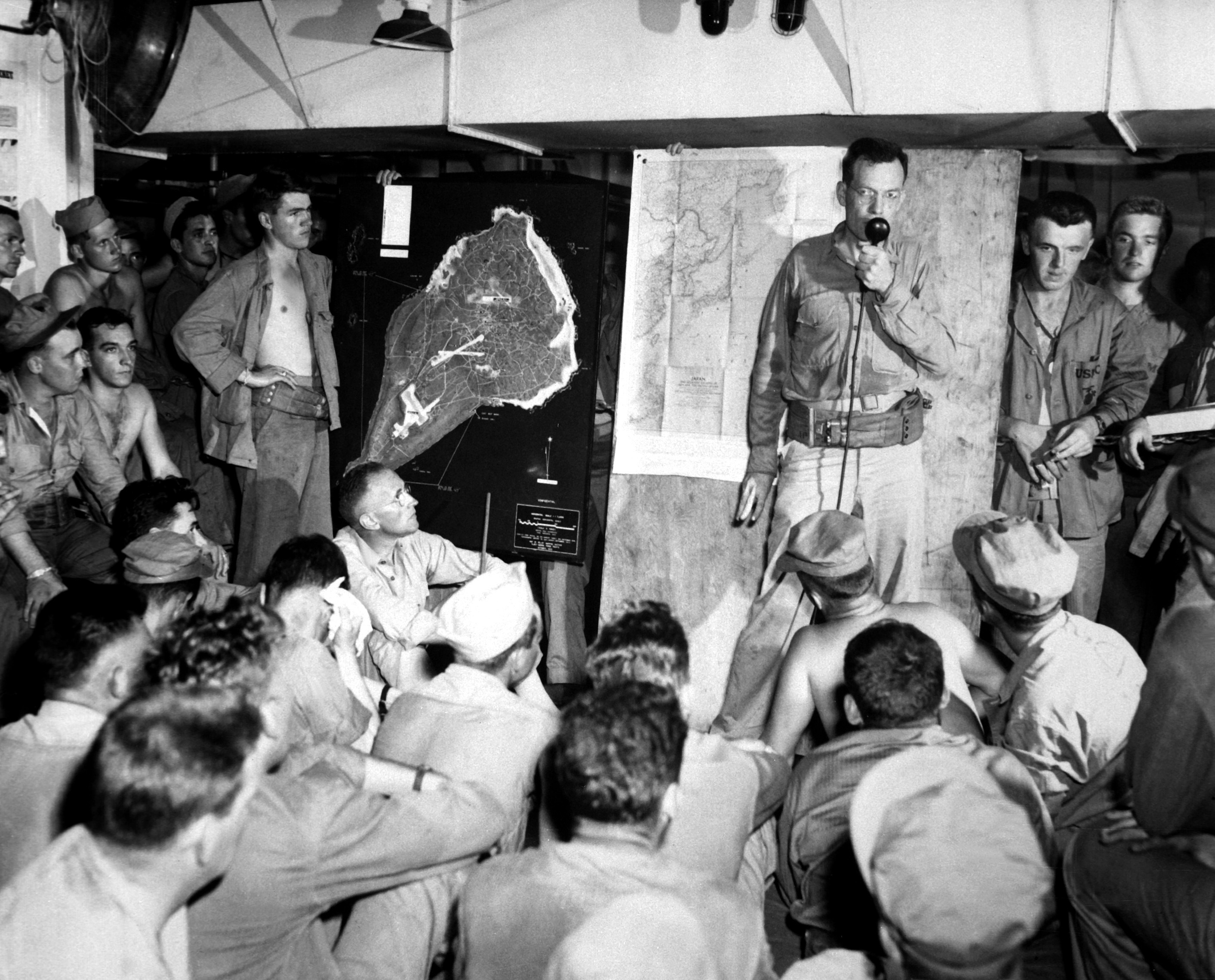 Lieutenant Wade discusses overall importance of target at pre-invasion briefing. Invasion of Iwo Jima, ca. February 1945. Morejohn. (Marine Corps) Exact Date Shot Unknown NARA FILE #: 127-G-142484 WAR & CONFLICT BOOK #: 1215